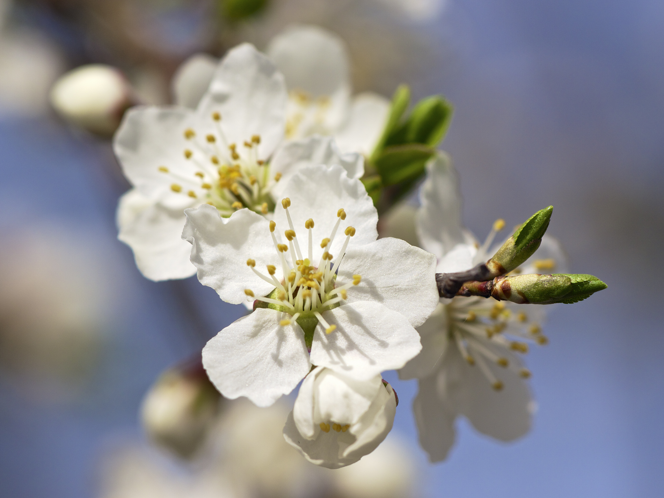 Flowering Cherry Plum (Prunus cerasifera), Wittgensdorf, Germany